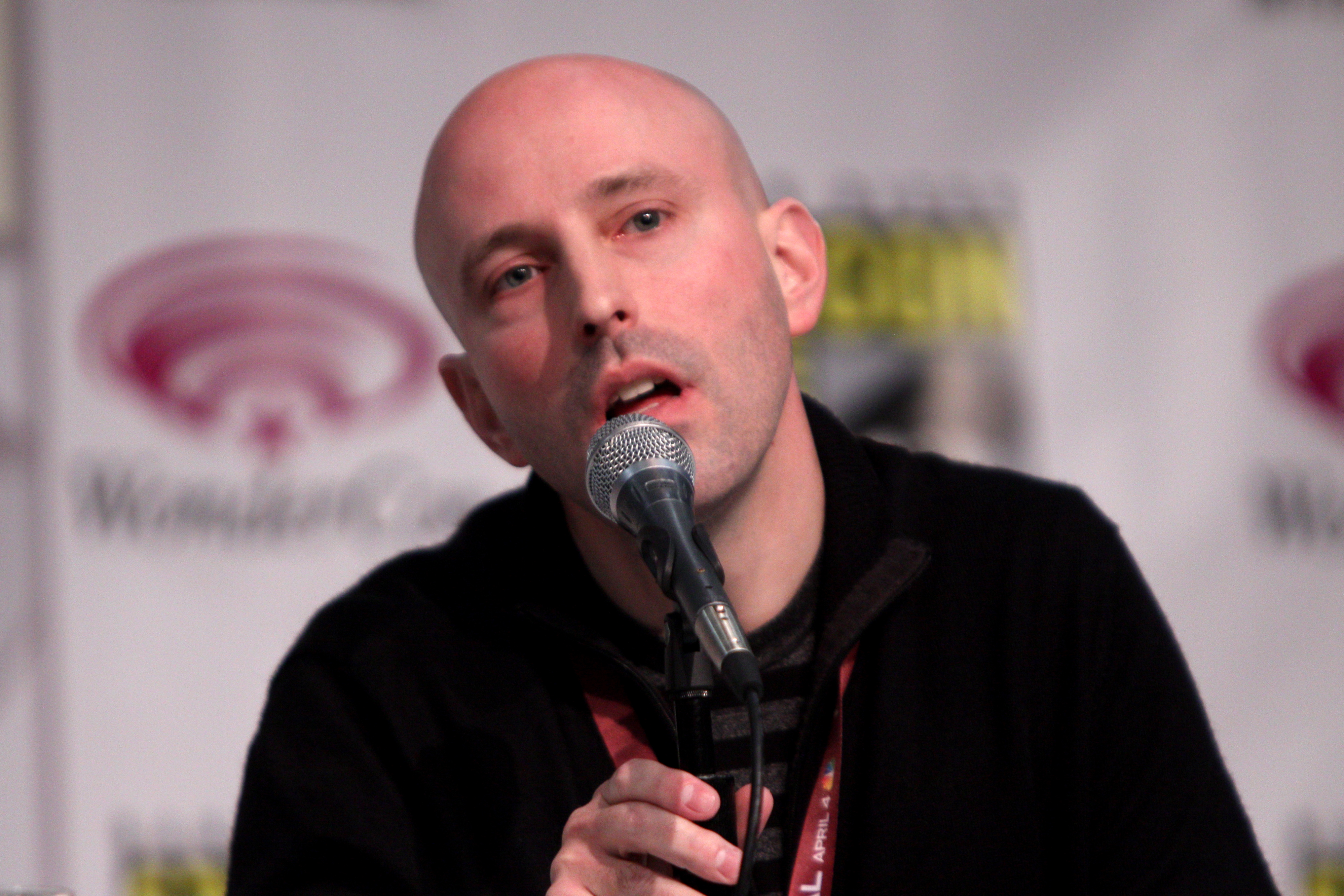 Brian K. Vaughan speaking at the 2013 WonderCon in Anaheim, California.